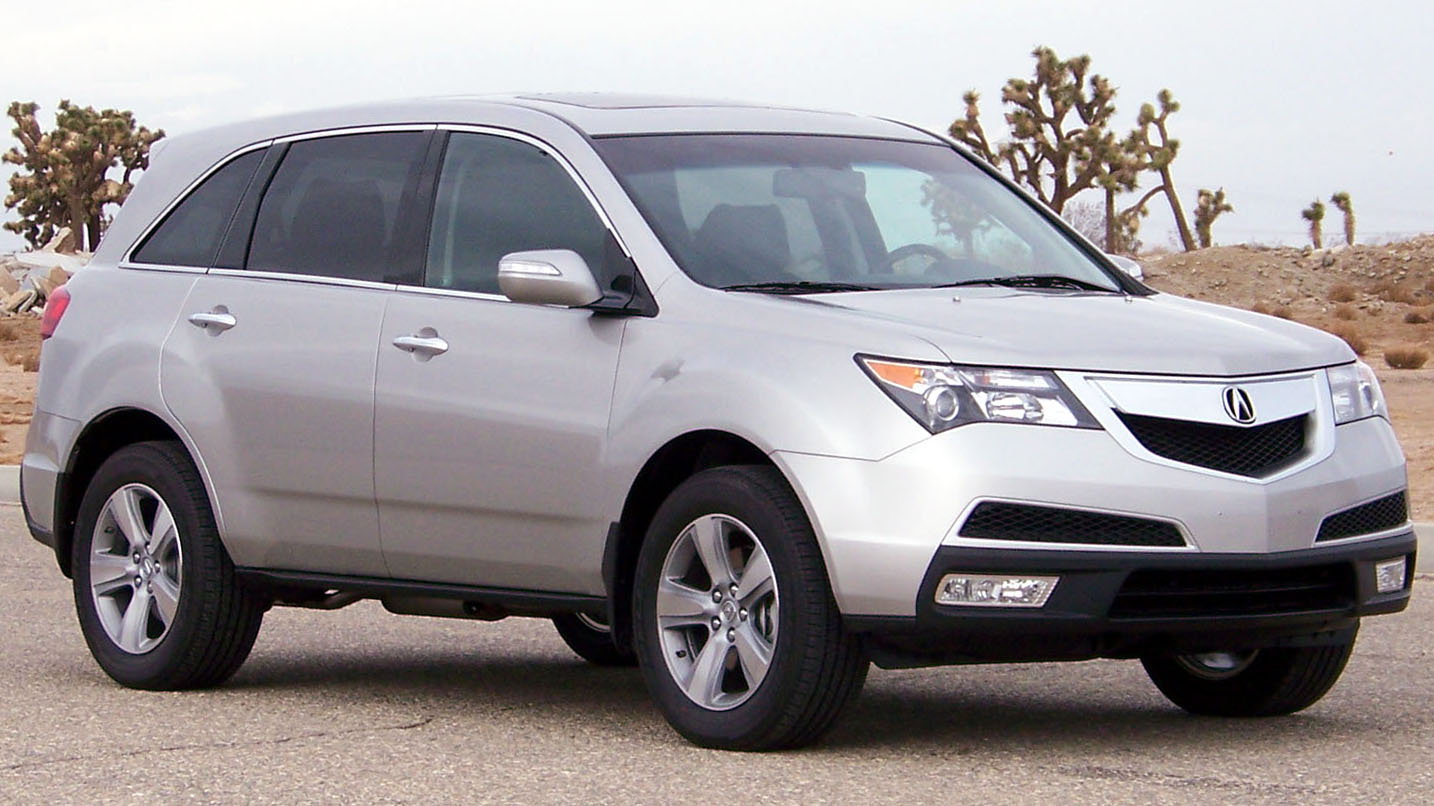 2010 Acura MDX photographed in USA.